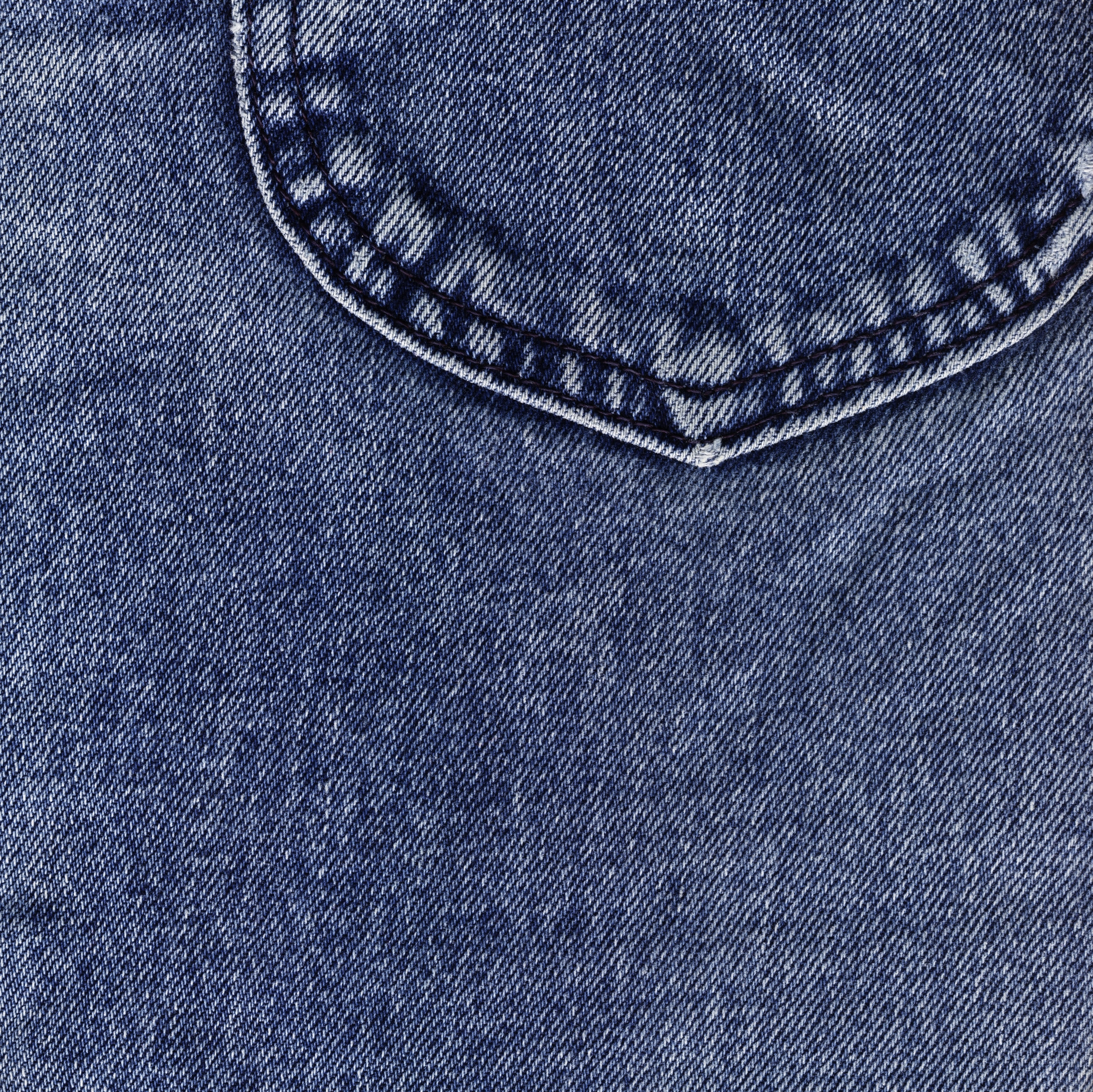 Texture of warn denim